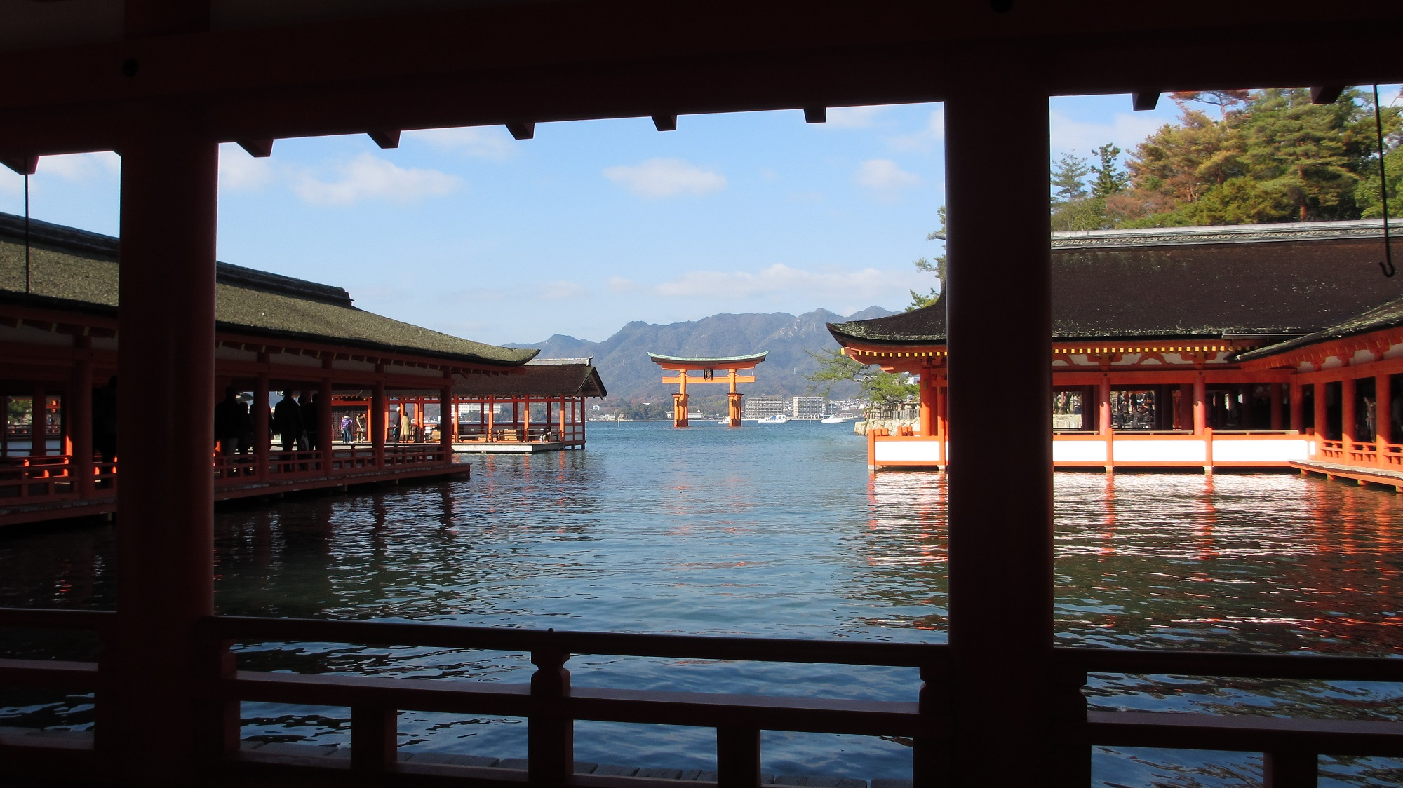 A high tide view from within the Itsukushima Shrine. The Torii can be seen in the distance, as the shrine itself appears to be floating on the water.